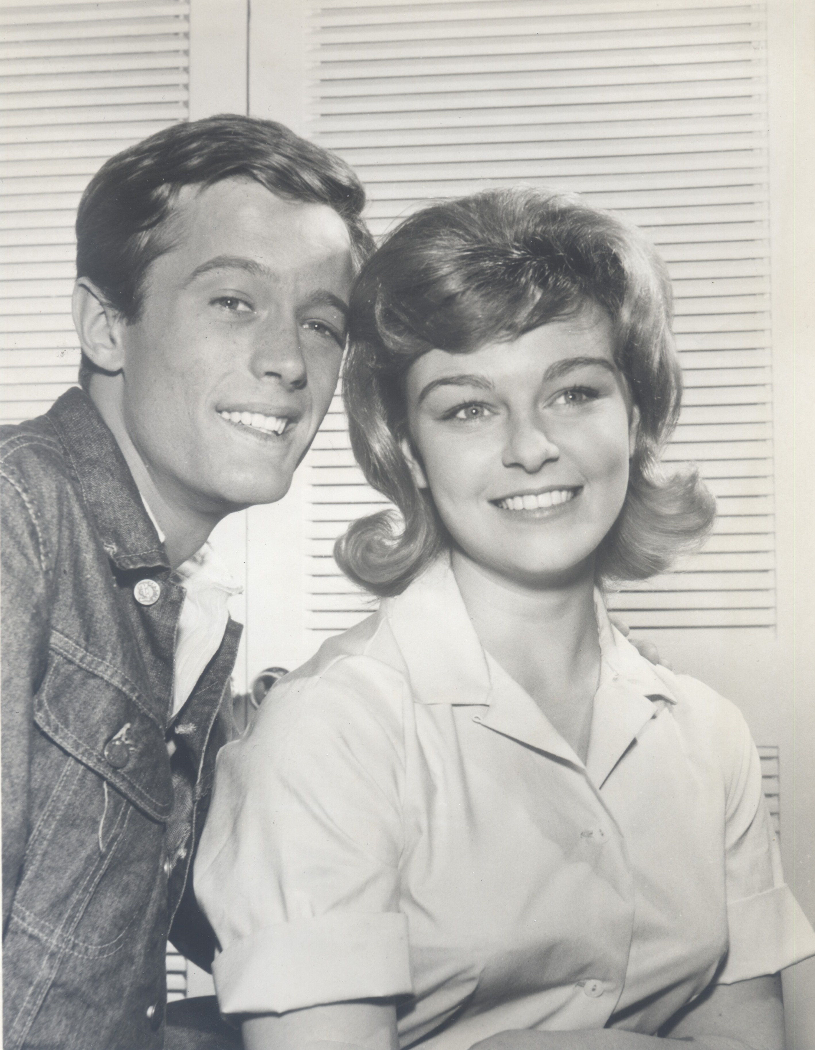 The publicity photograph of Peter Fonda and Patty McCormack was used to promote the pictured personalities, the television show The New Breed, and the show's episode "Thousands and Thousands of Miles." The whole back photo, unscanned, contained the stamped mark "059".